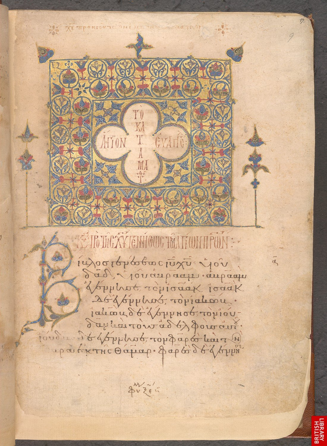 folio 9 of the codex with the first page of the Gospel of Matthew